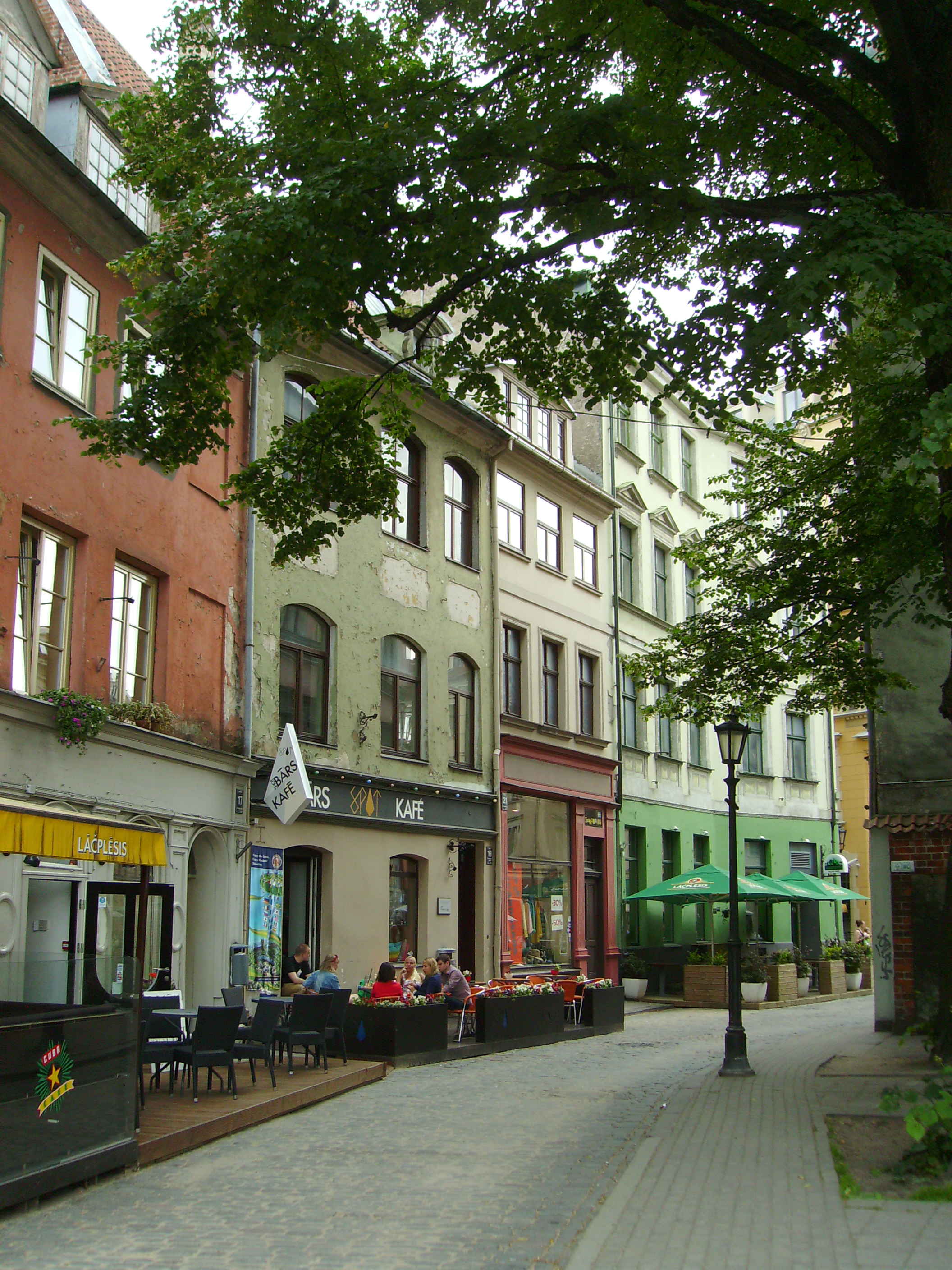 Jauniela iela in Old Riga (Latvia), where the Soviet series The Adventures of Sherlock Holmes and Dr. Watson were shot from 1979 to 1986.